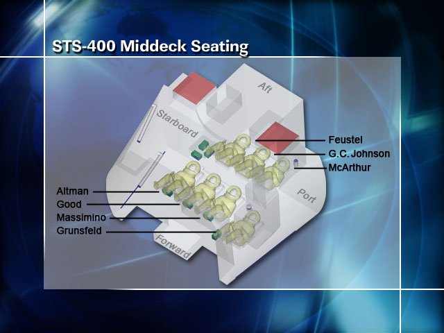 The Middeck seating for landing.